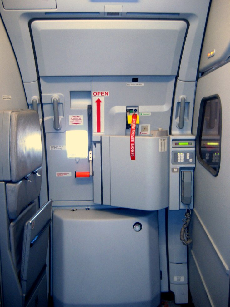 Rear door of an Airbus A319 aircraft of easyJet